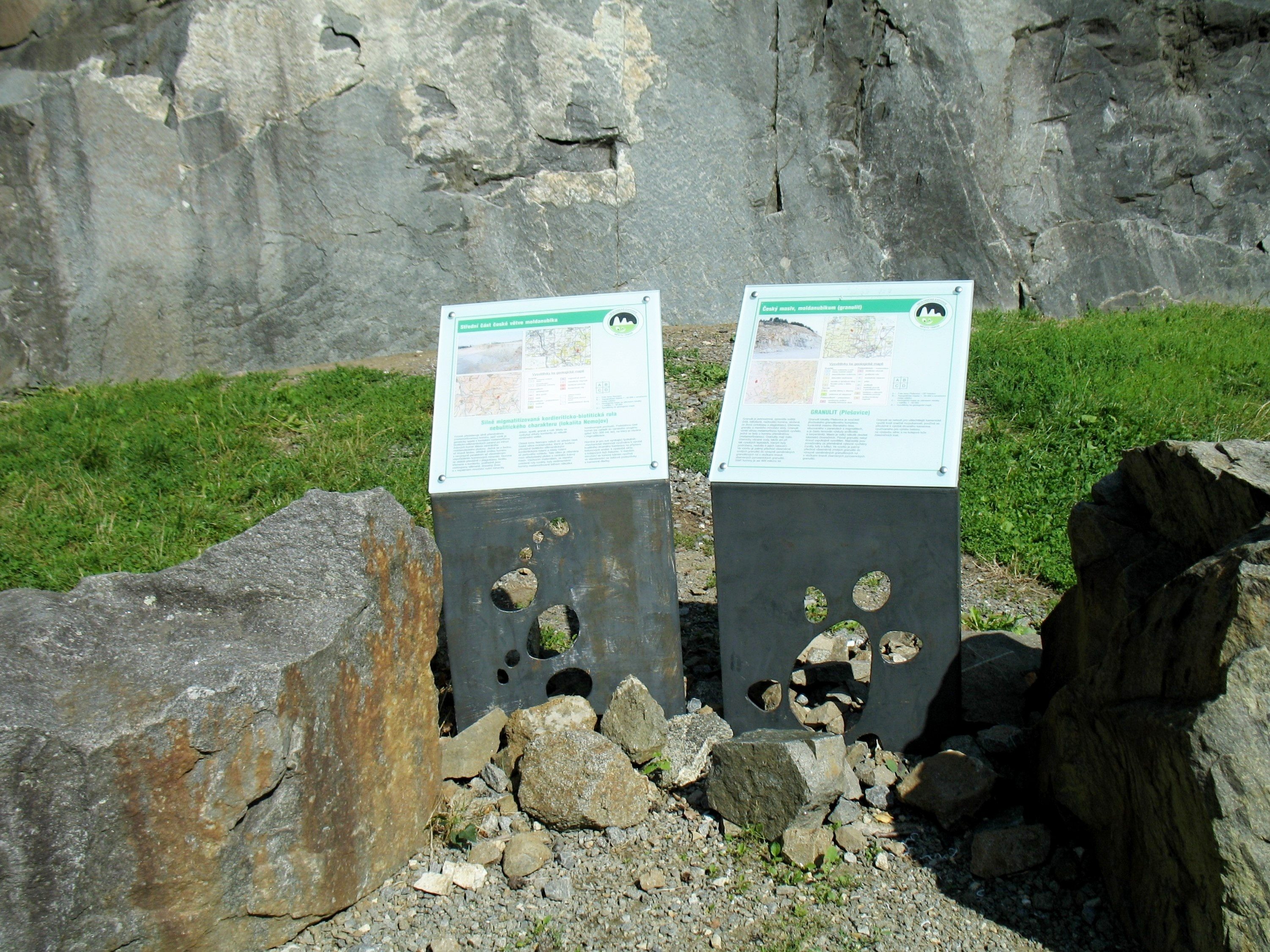 Geological exhibition in Tábor, Czech Republic